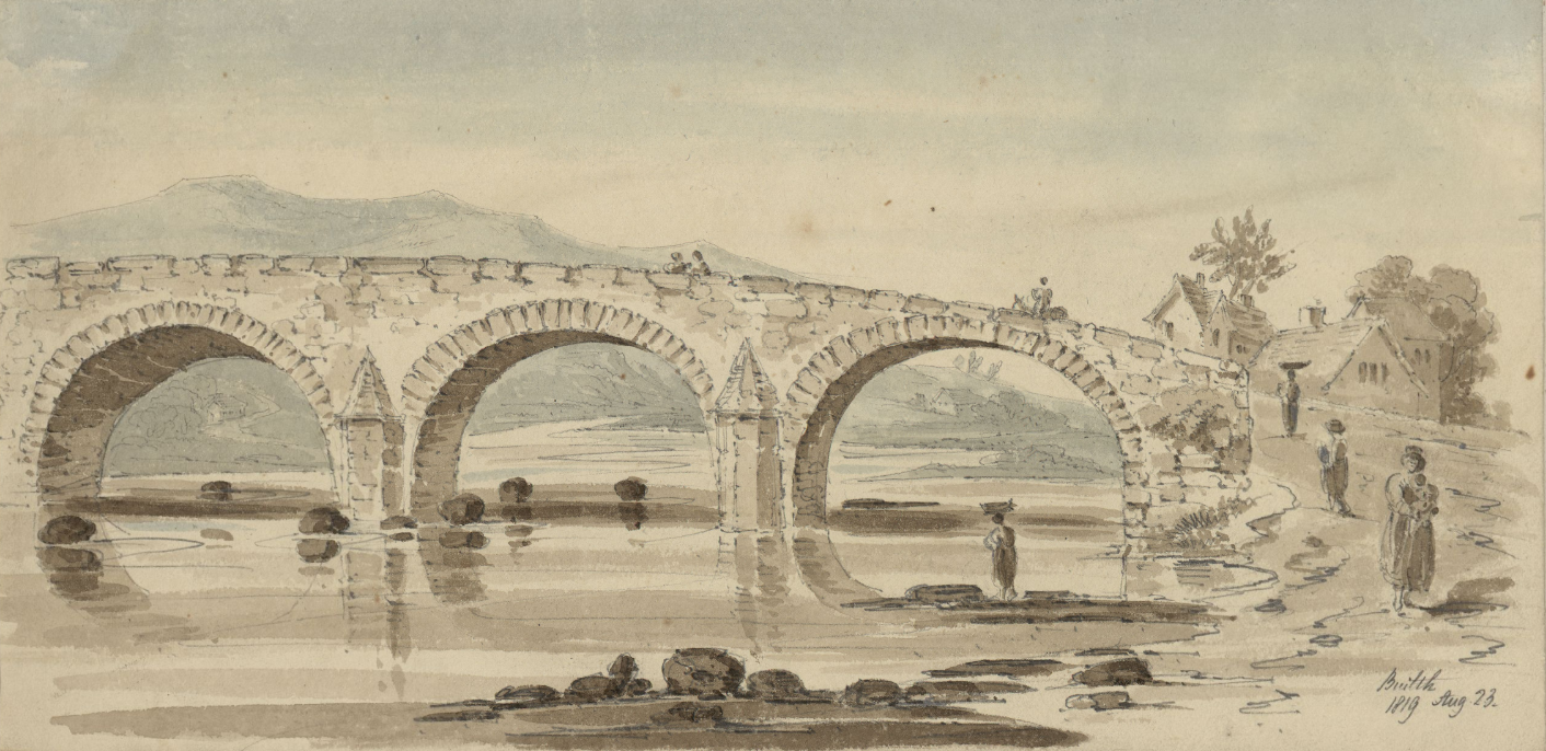 Sketches by Sarah Grace Carr during a tour of Wales in 1819. Drawing volumes DV DV398 (4to)